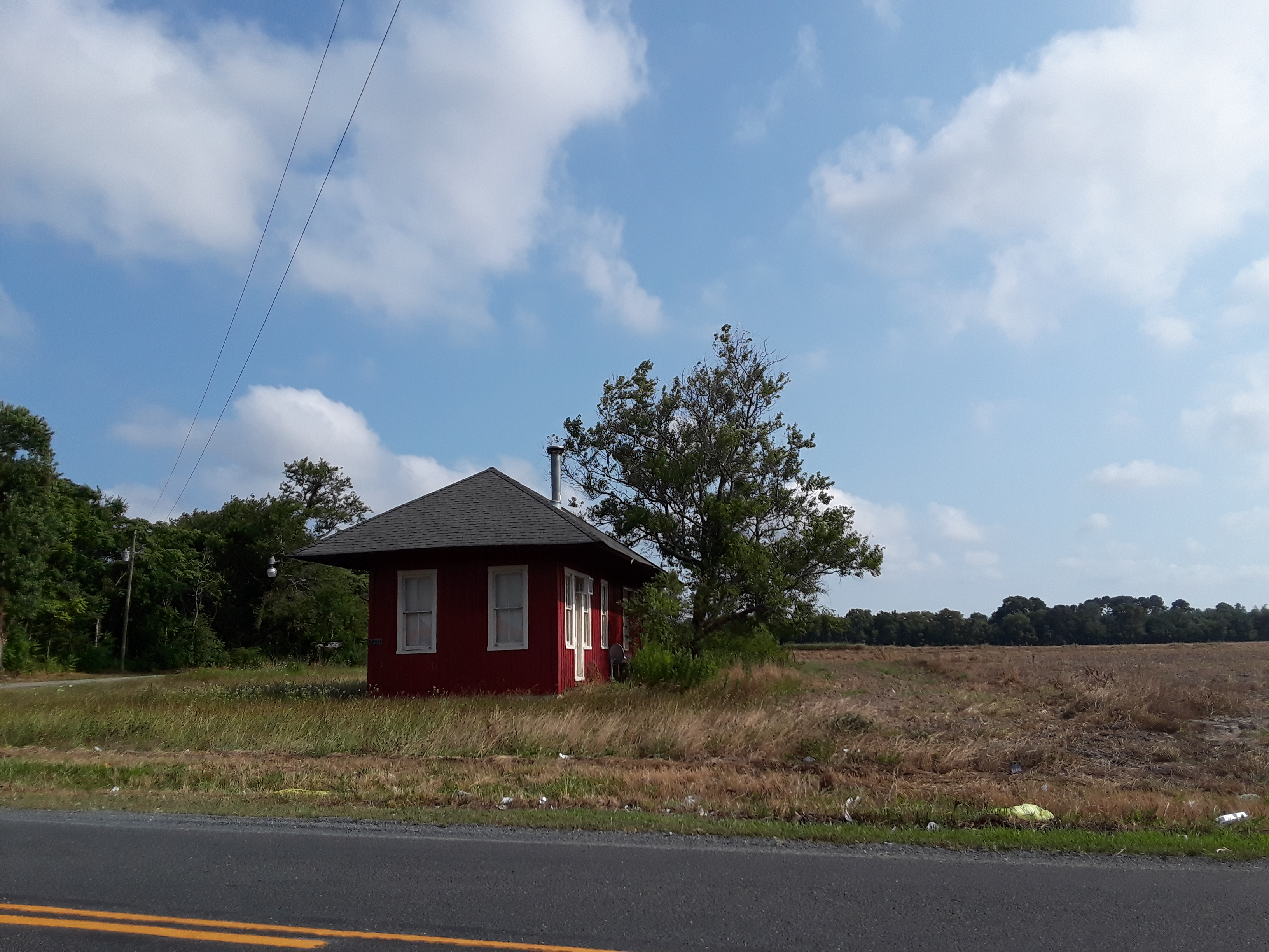 Taken on a visit to the Eastern Shore of Virginia, July 2018